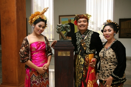 Rudana, wife and daughter with The Tree of Humanity Award (Location: Museum Rudana, Ubud, Bali)